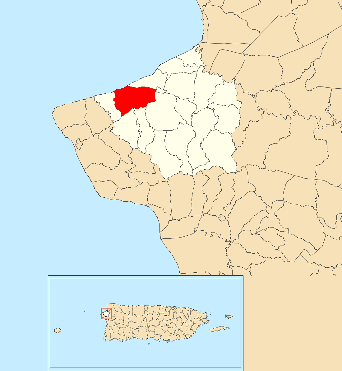 Guayabo, Aguada, Puerto Rico locator map